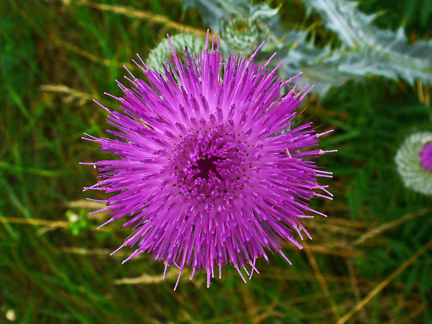 Onopordum acanthium, Asteraceae, Cotton Thistle, inflorescence; Stutensee, Germany.